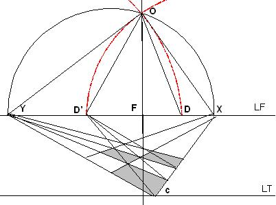 construction of the distance points of a direction in the plane